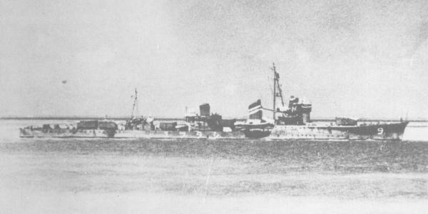 Imperial Japanese Navy destroyer Shiratsuyu, Shiratsuyu-class.